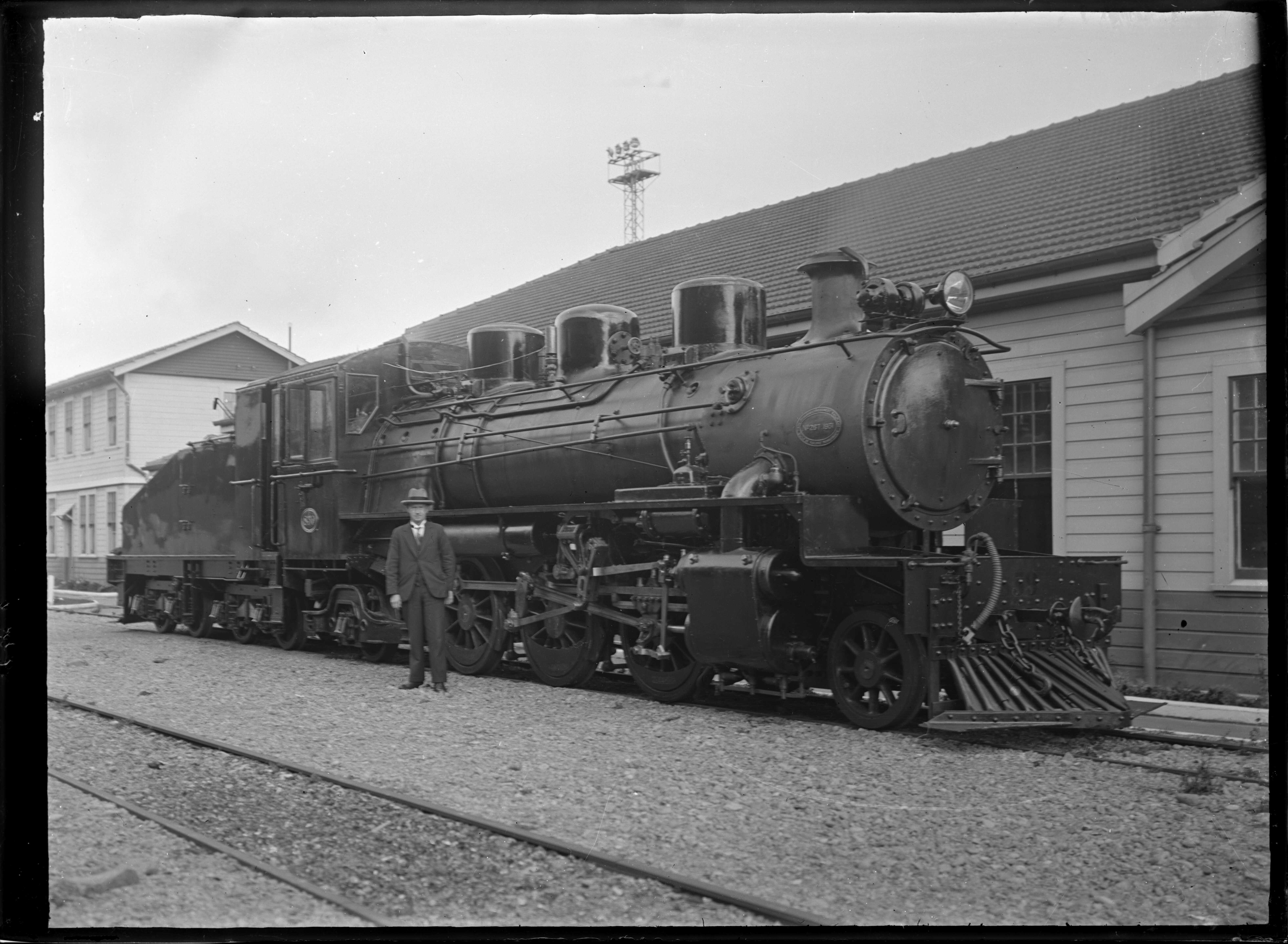 C class 2-6-2 locomotive, New Zealand Railways no 859, probably photographed in 1931 by A P Godber.